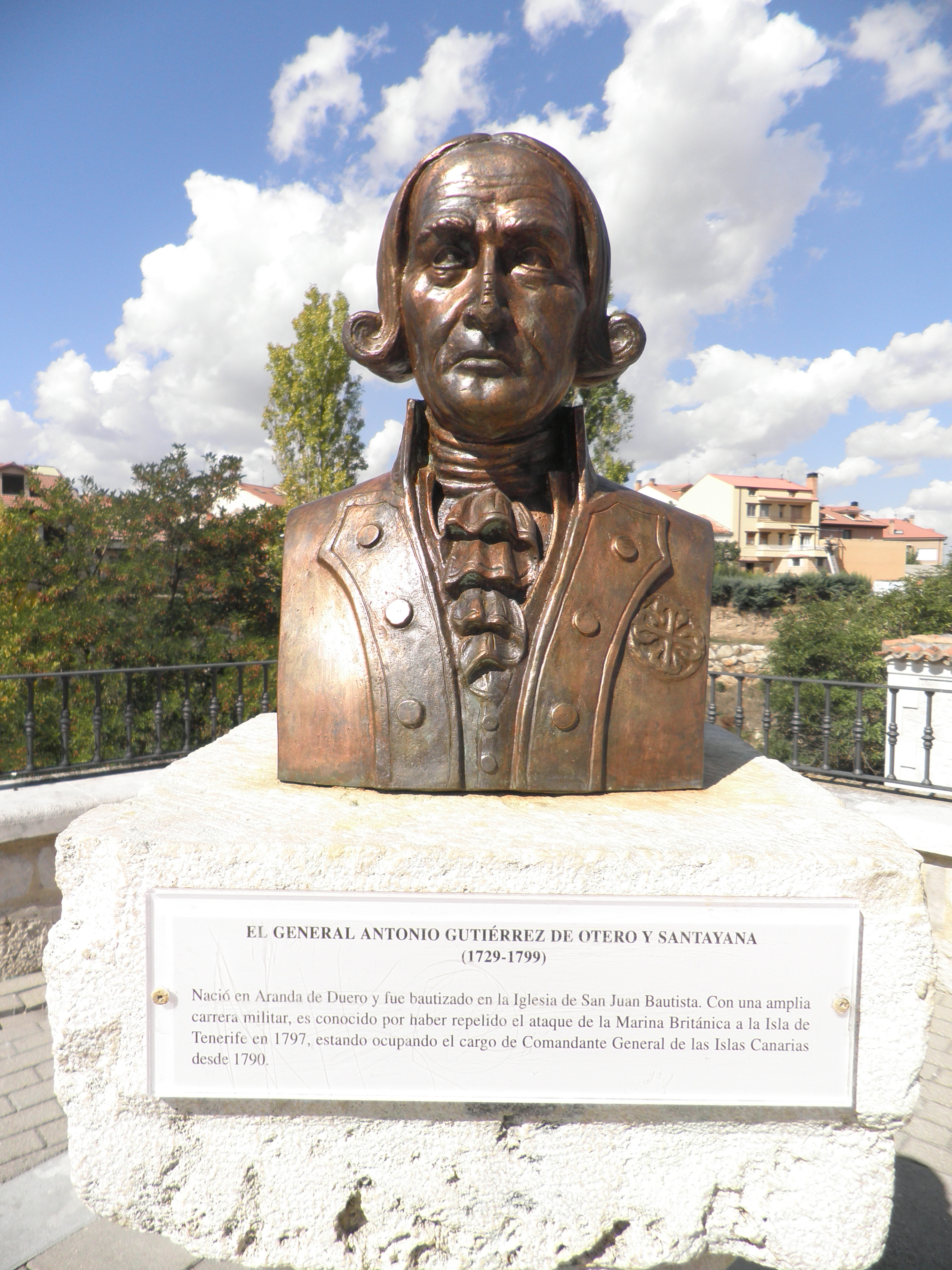 General Antonio Gutiérrez de Otero y Santayana bust in Aranda de Duero, Burgos